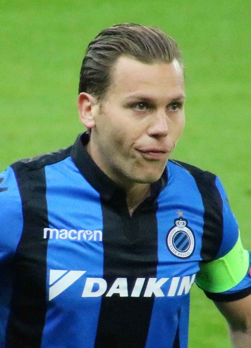 Uefa Euroleague 2018/19 match round of 32